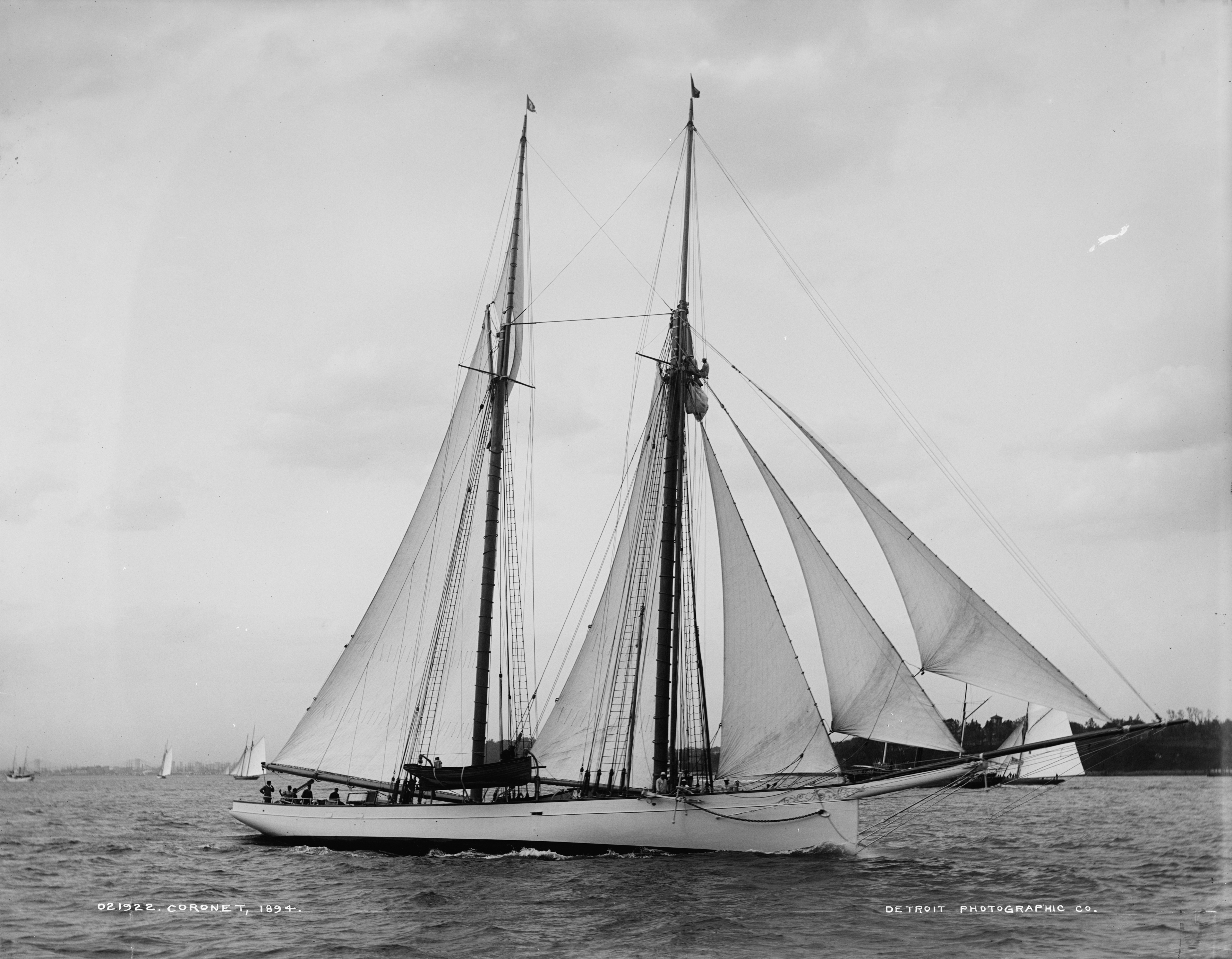 Arthur Curtiss James' schooner Coronet under sail in 1894